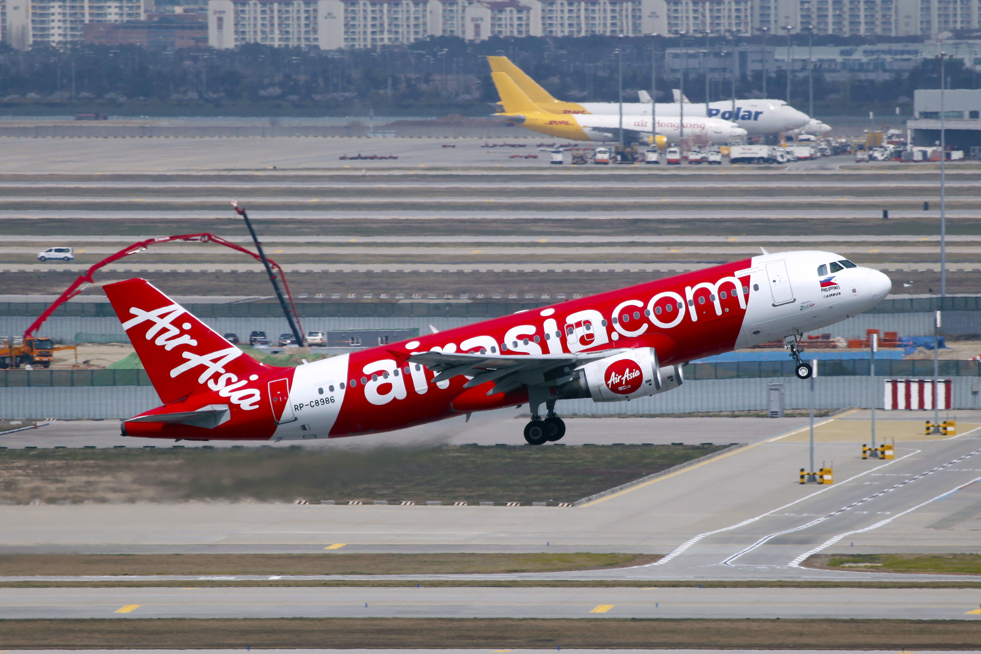 AirAsia Zest Airbus A320-216 take off at Seoul Incheon International Airport [ICN]